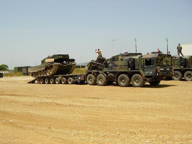 Tank Transporter SLT 50-3 Elefant with 56 t Trailer Kosovo (Suva Reka)